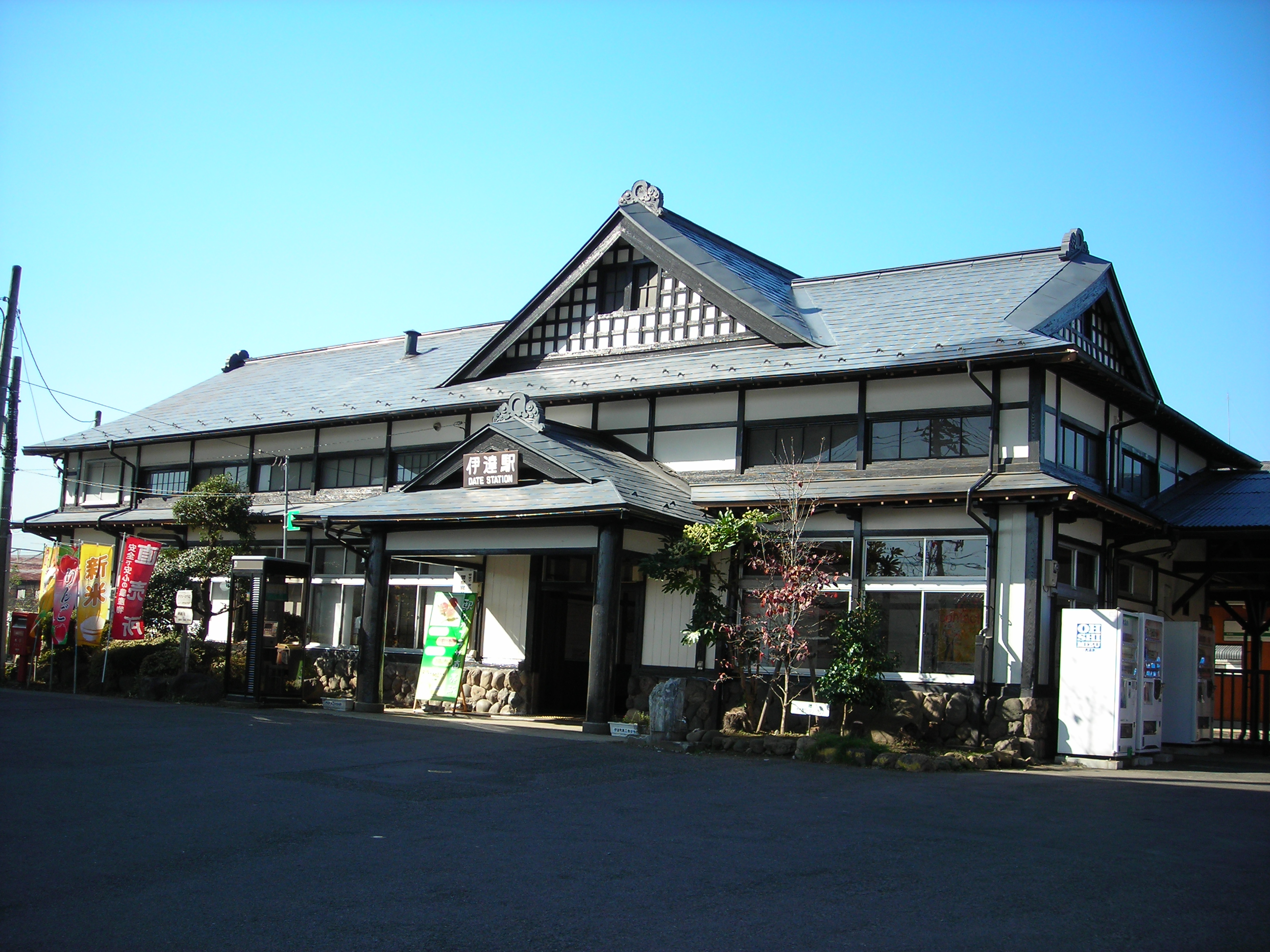 Date Station, Date, Fukushima, Japan